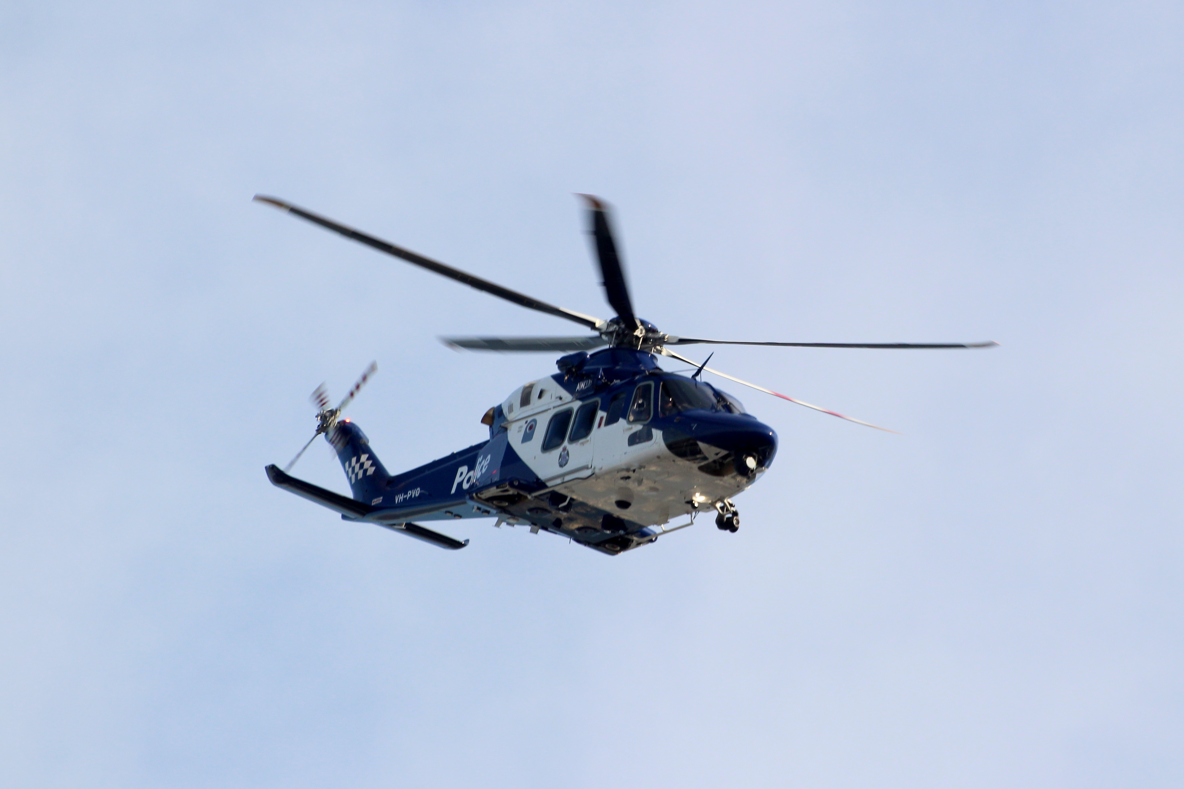 Victoria Police AW139 VHPVO S//N 31878 above Melbourne City, West Melbourne Police Station, on it's delivery flight.